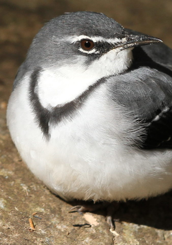 Mountain wagtail (or Long-tailed Wagtail), Motacilla clara at Lekgalameetse Nature Reserve, Limpopo, South Africa